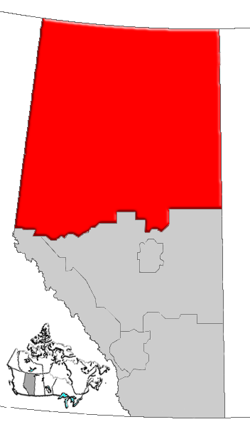 Map of Northern Alberta, Canada